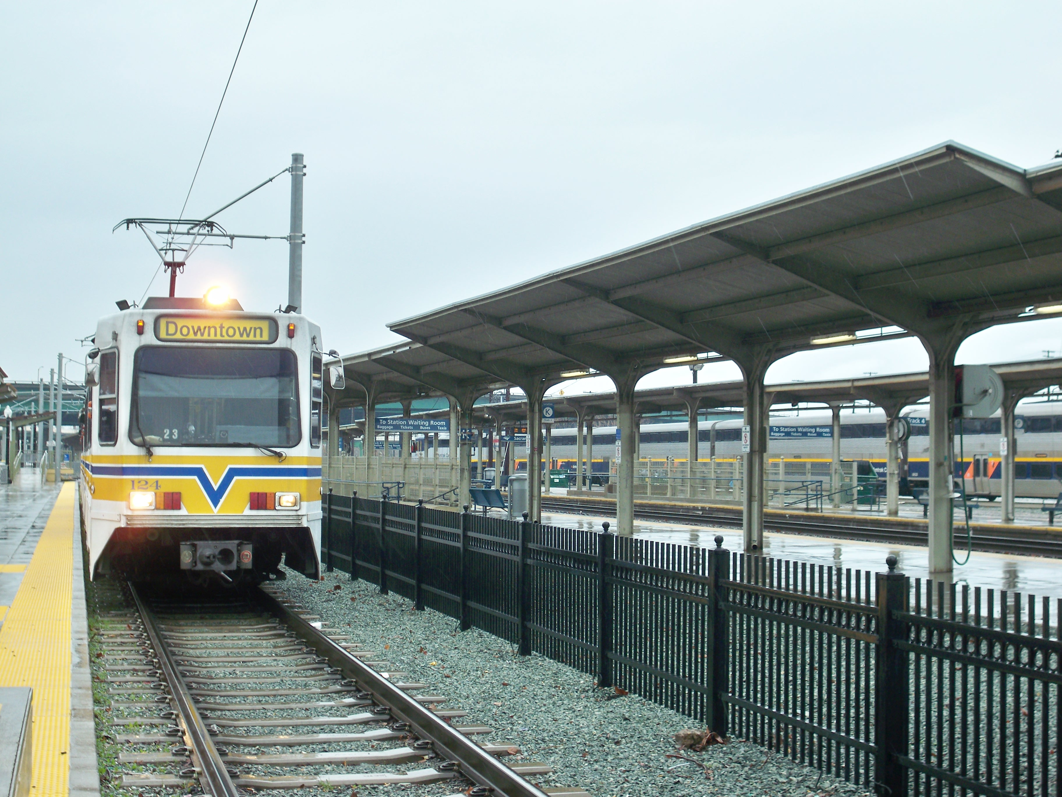 Siemens AG Duewag U2A SACRT